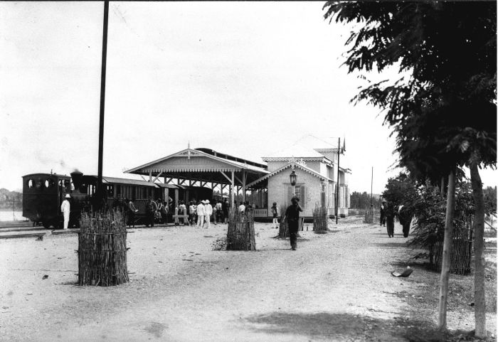 A railwaystation at Aceh